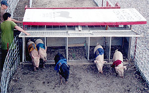 Starting gate of Bear Creek Downs pig races